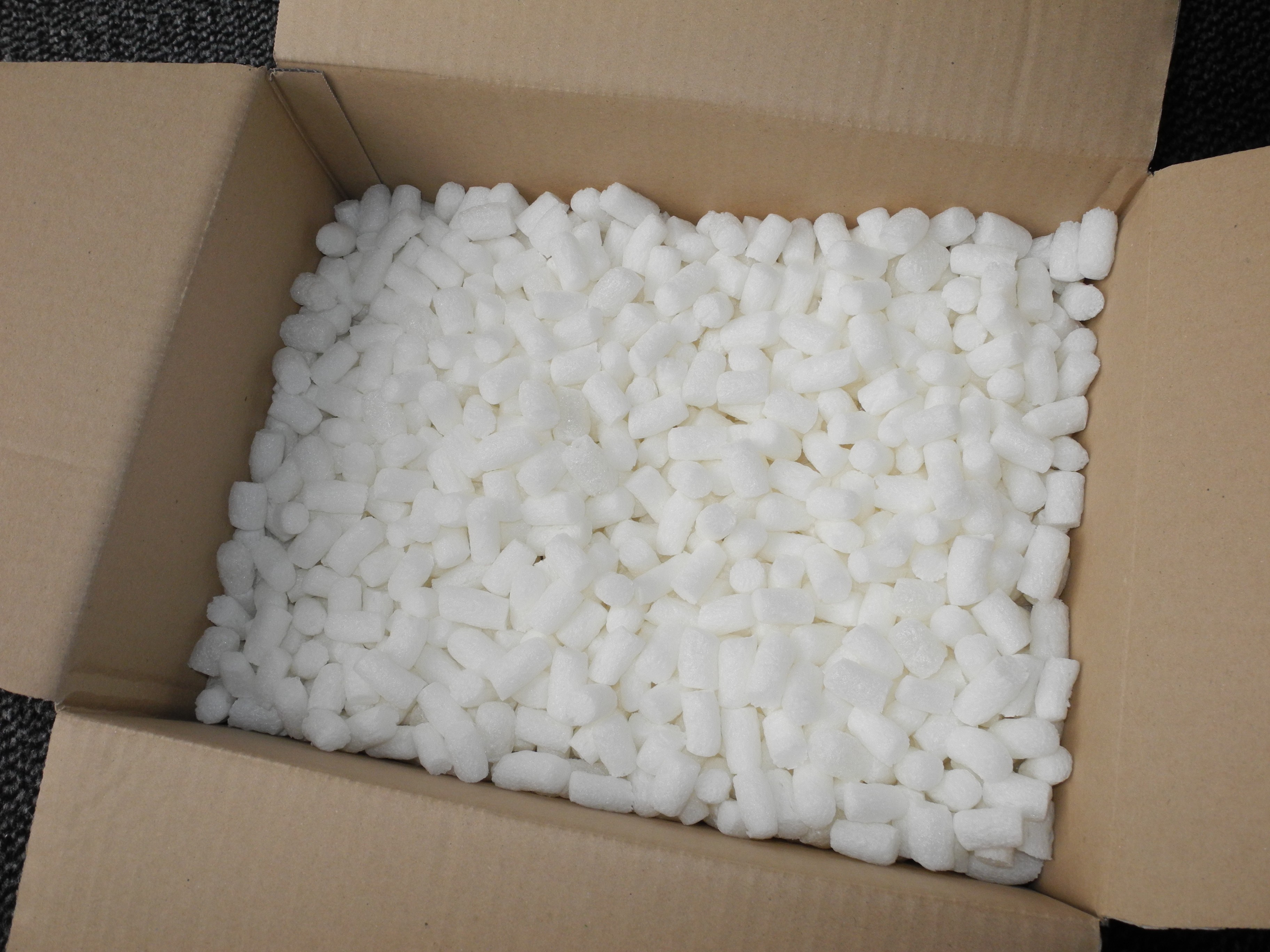 Corn pops, size 2 x 1 cm, used as packing material in parcels